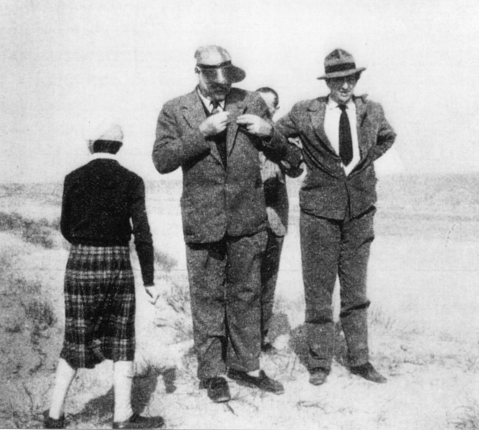 Ernest Hemingway (left) and Italian architect Marcello d'Olivo (right)